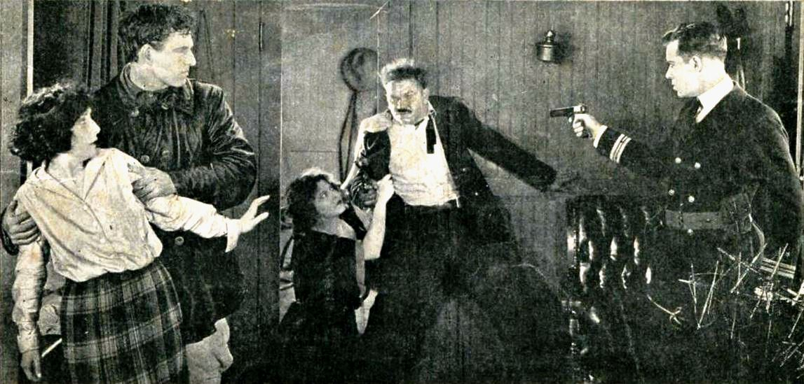 Still from the American film Hurricane's Gal (1922) featuring Dorothy Phillips, from an ad on the back cover of the September 1922 Film Fun.